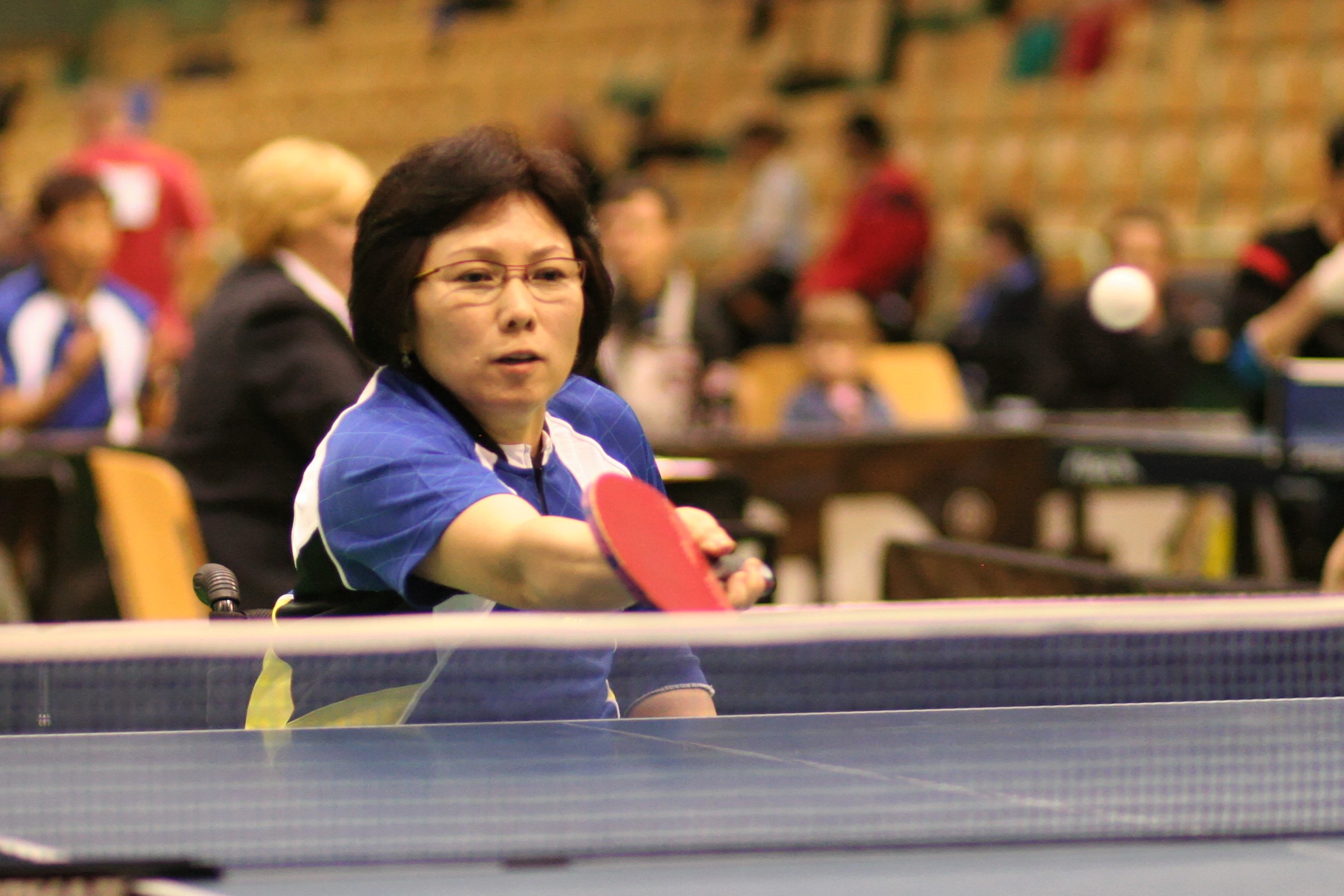 Choi Hyun-ja at the 2008 Slovenia Open